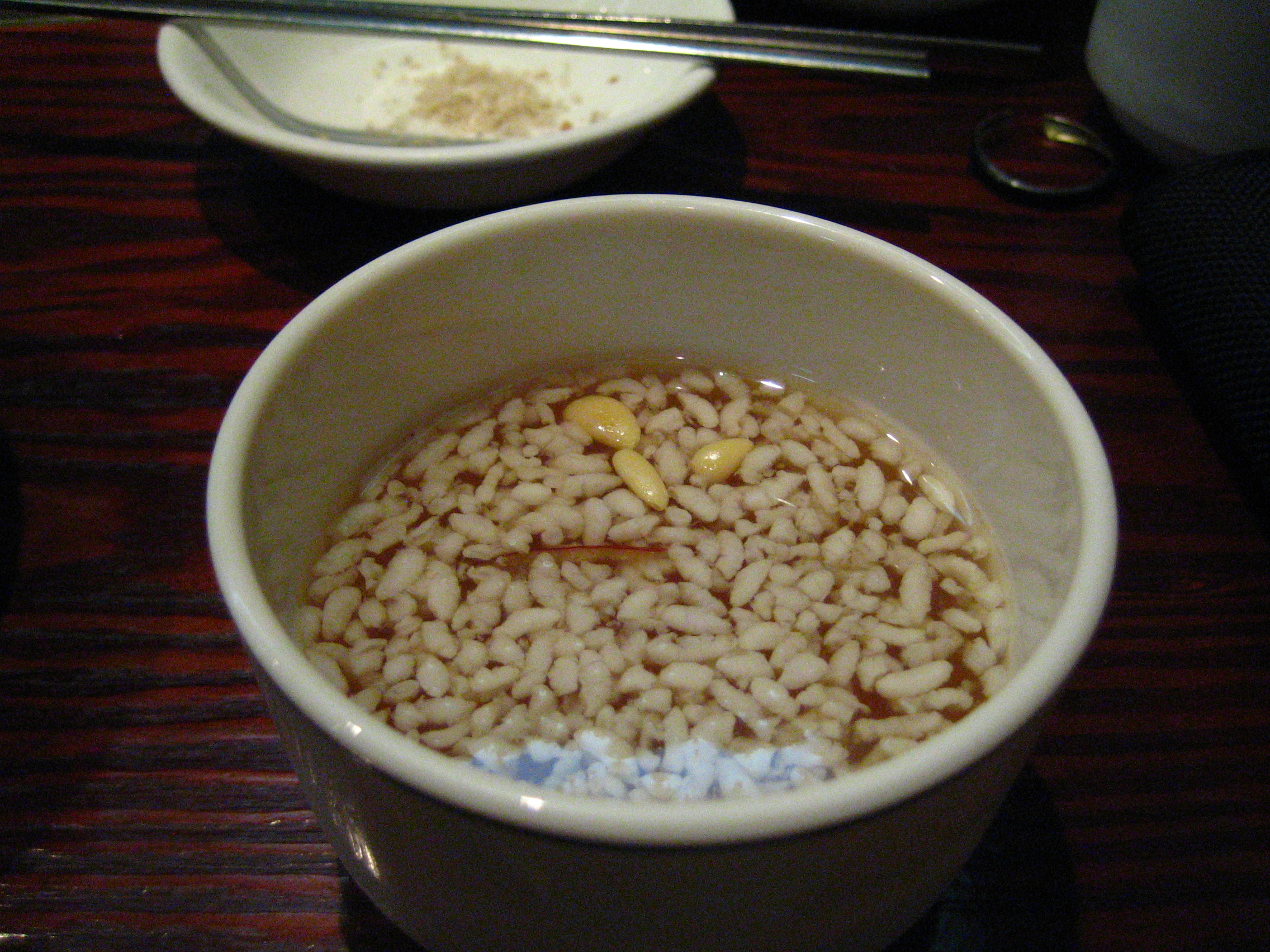 Sikhye, a Korean dessert